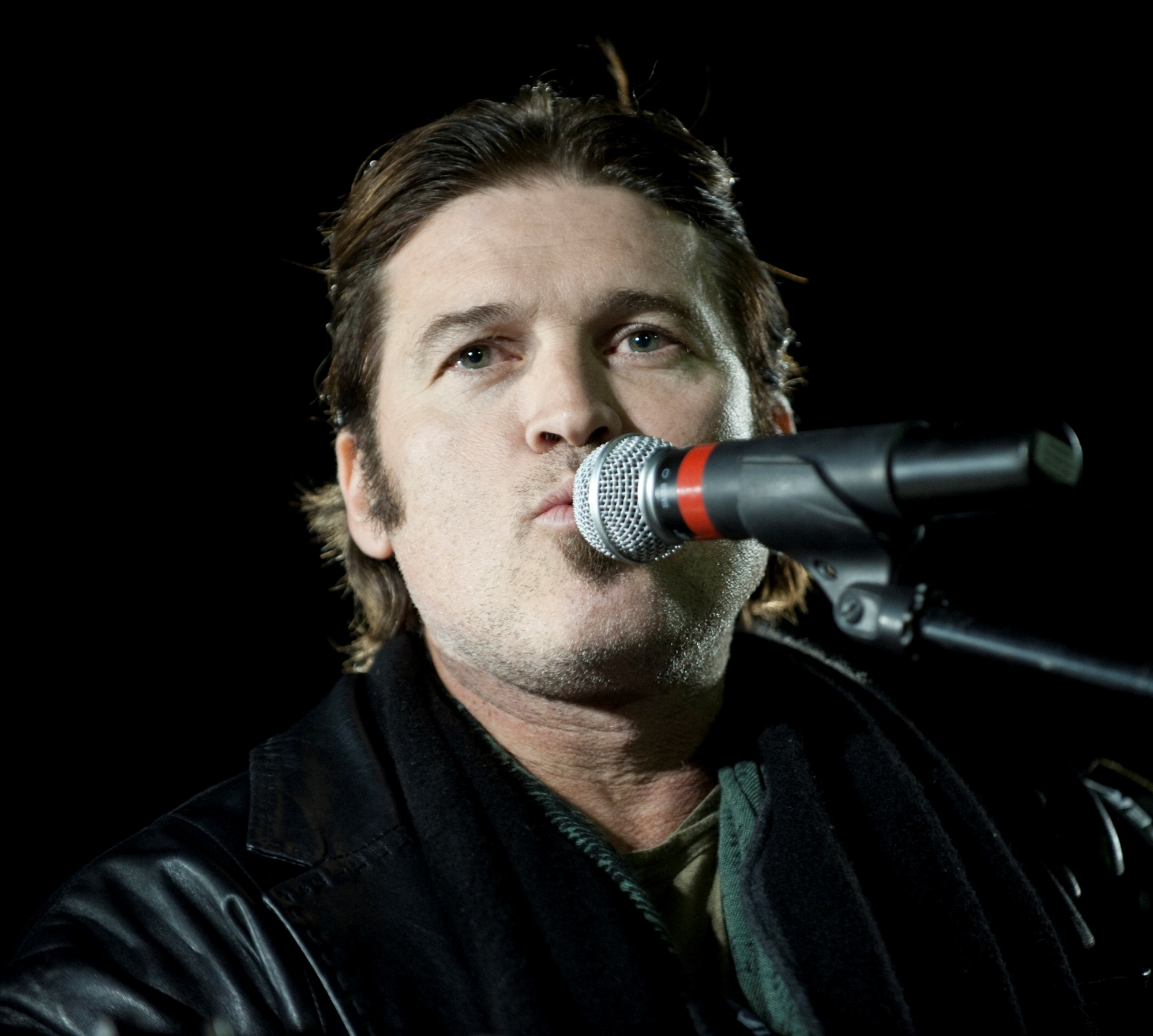 Musician Billy Ray Cyrus performs at the 2009 USO Holiday Tour stop in Kandahar, Afghanistan, Dec. 18, 2009. Navy Adm. Mike Mullen, chairman of the Joint Chiefs of Staff and his wife Deborah welcomed tennis star Anna Kournikova, comedian Dave Attell and tennis coach Nicholas Bollettiere and on the tour visiting troops in Afghanistan, Iraq and Germany